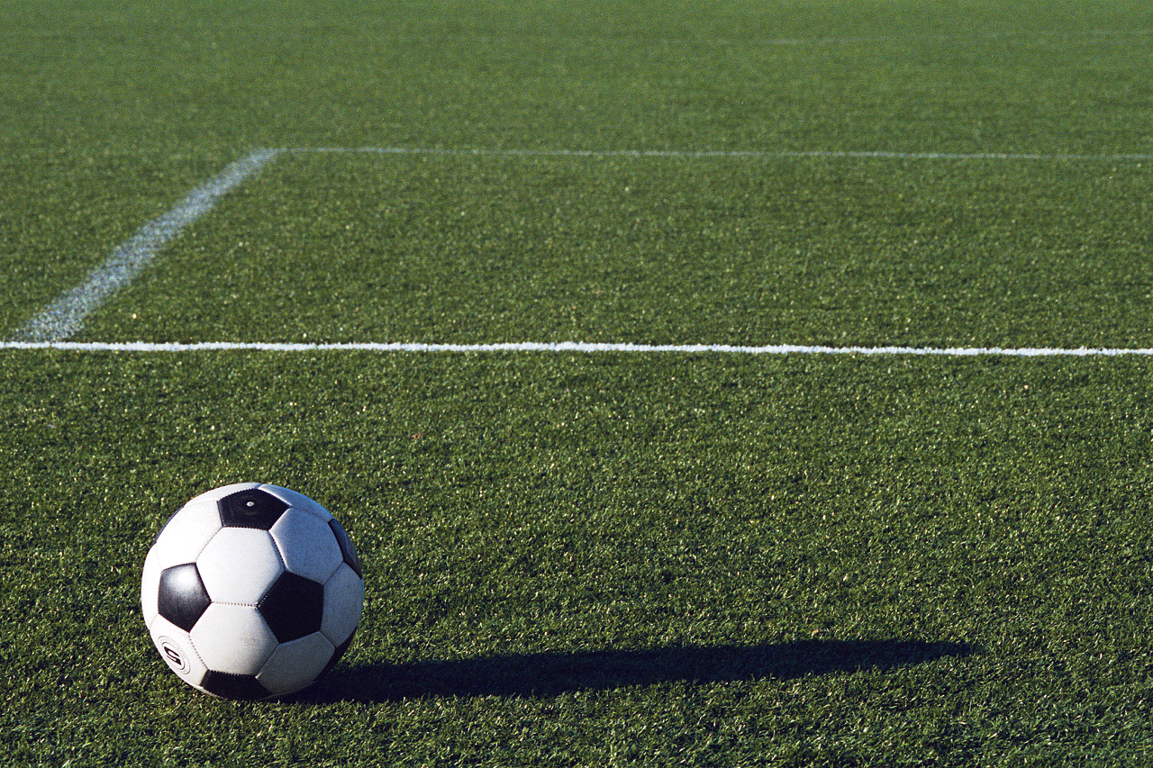 A soccer/football ball.